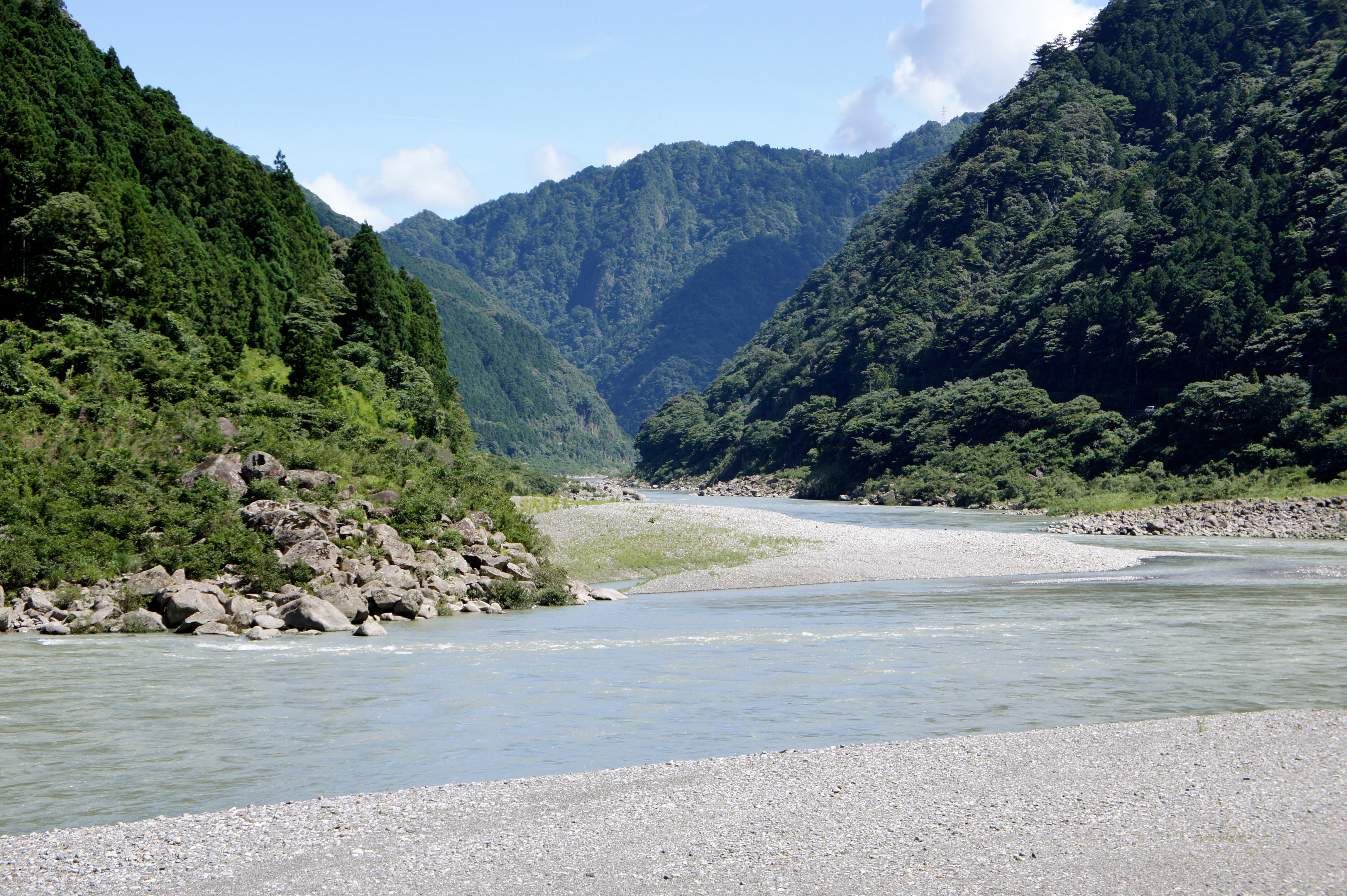 Kumano River in Shingū, Wakayama prefecture, Japan